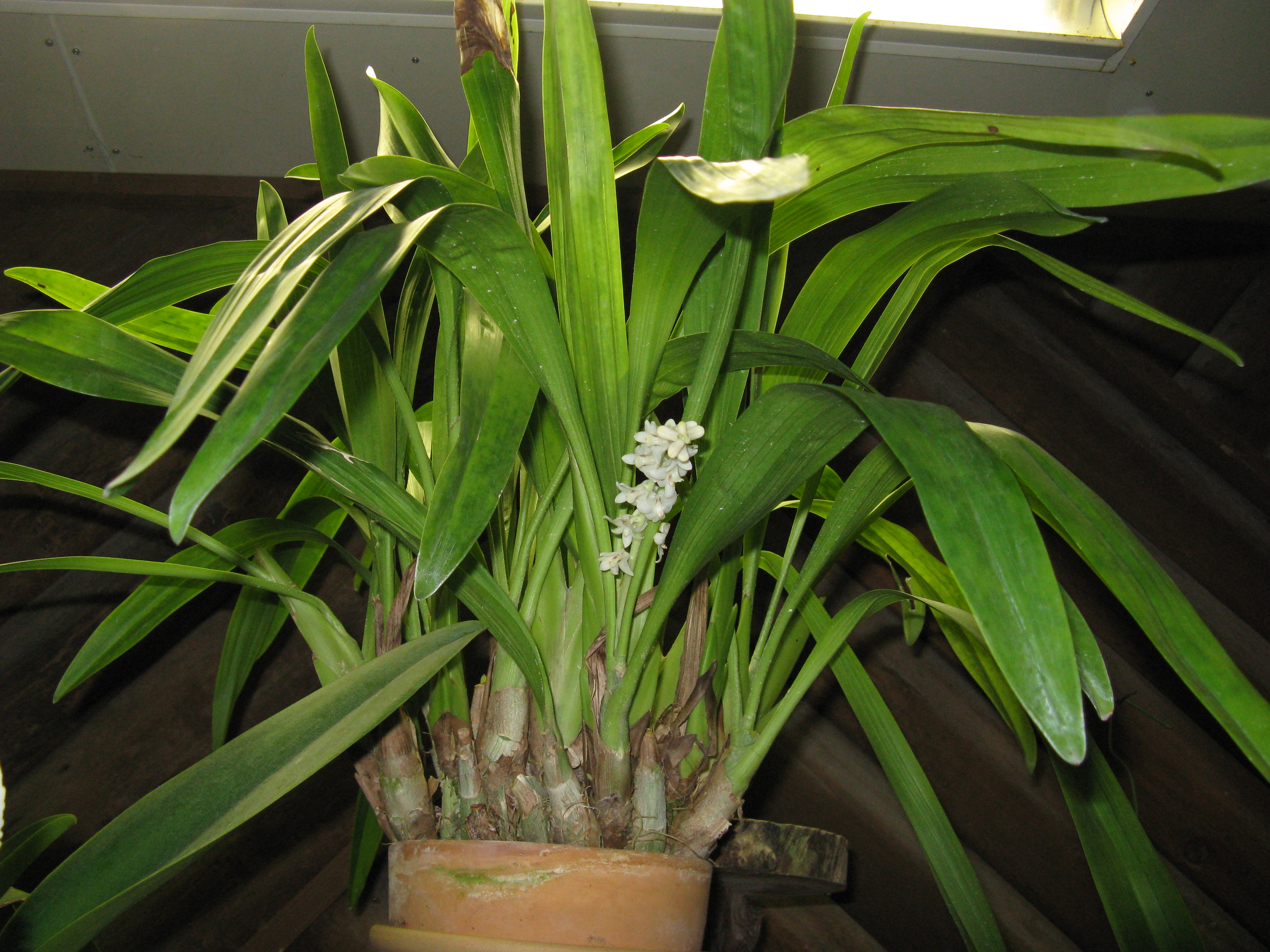 Scientific name Bryobium hyacinthoides Place:Osaka Prefectural Flower Garden,Osaka,Japan